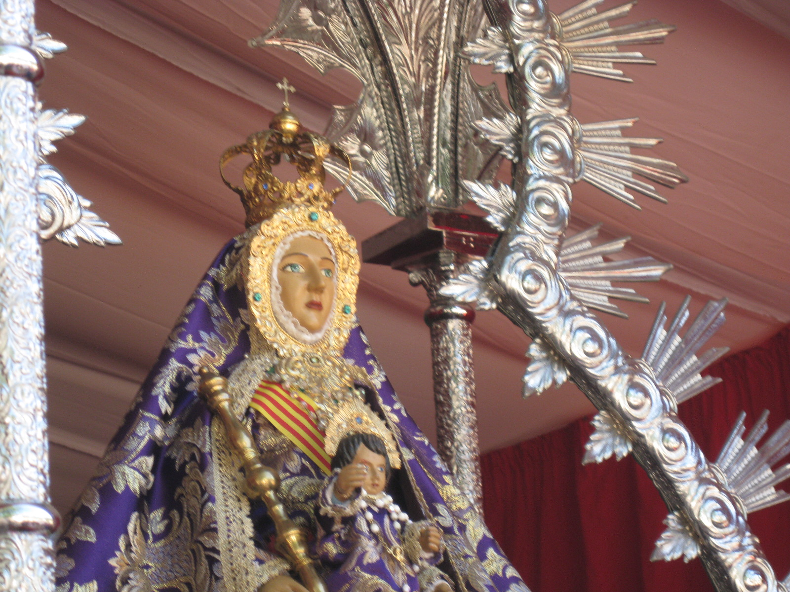 Ntra Sª de la Sierra